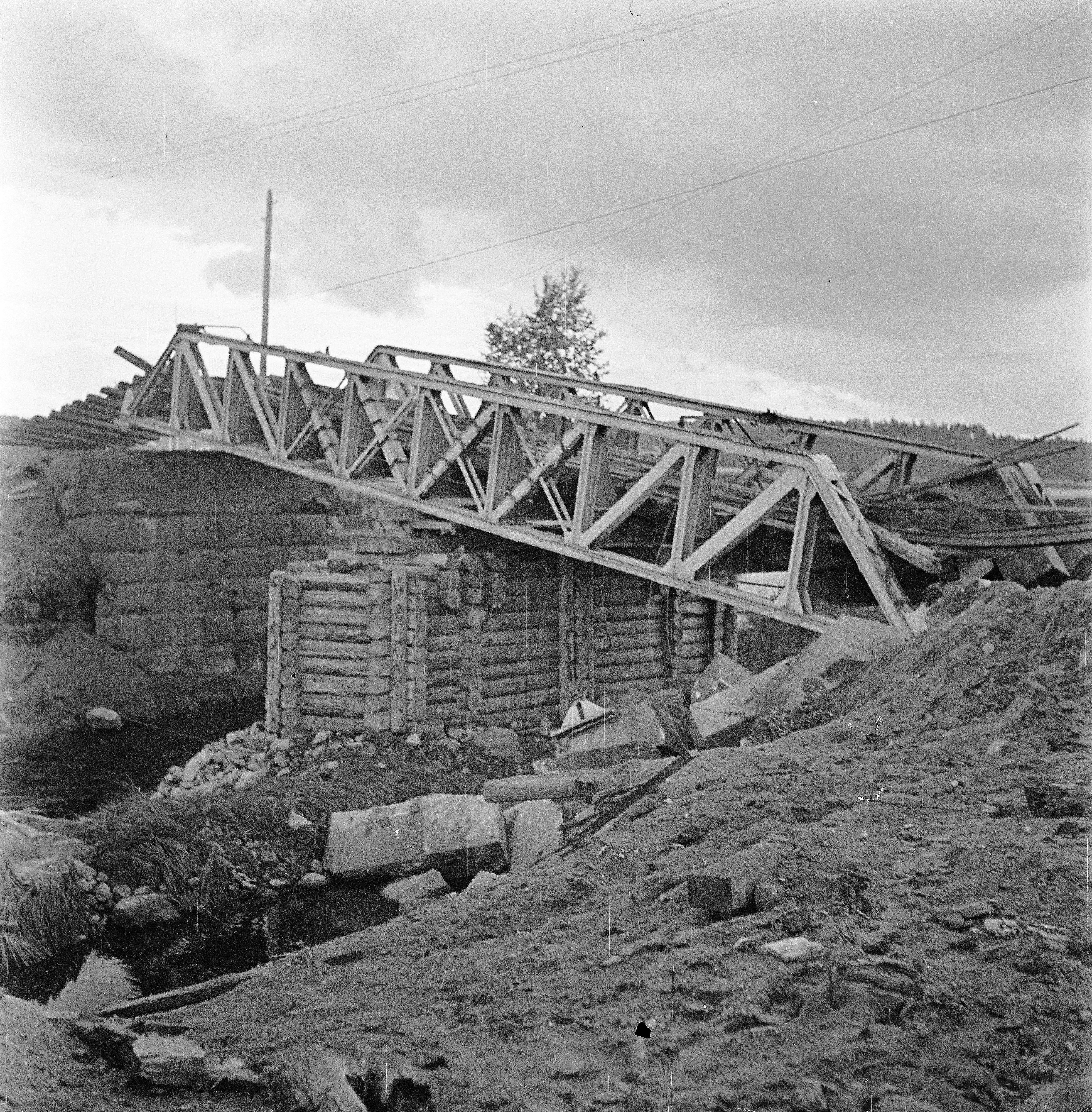 Sairalan rautatiesilta, jonka ryssät ovat räjäyttäneet.